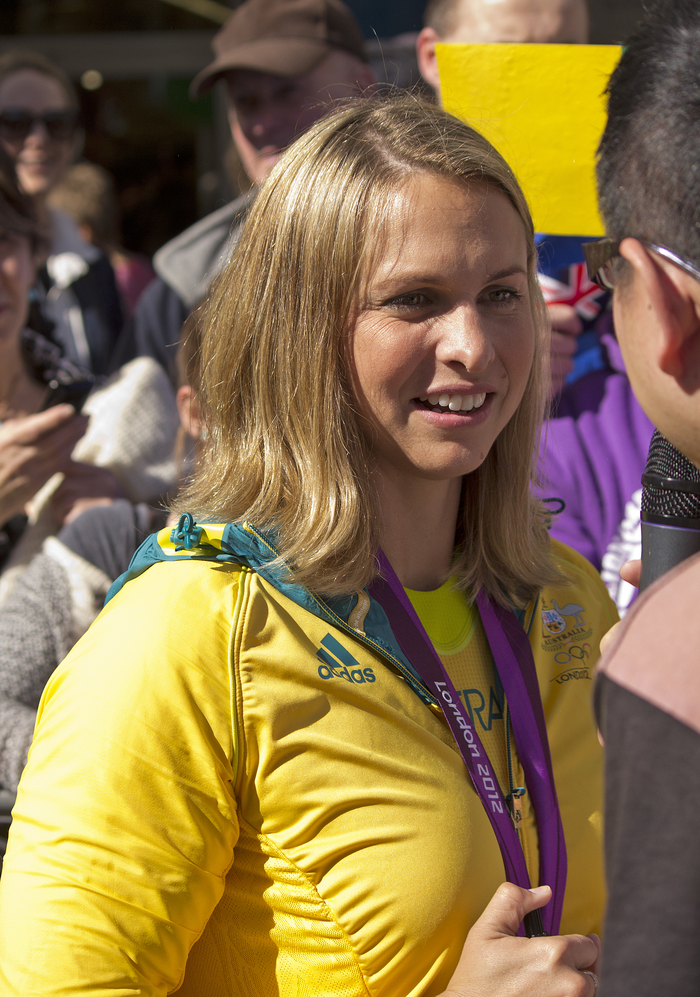 Libby Trickett being interviewed by the media at the Welcome Home parade in Sydney.